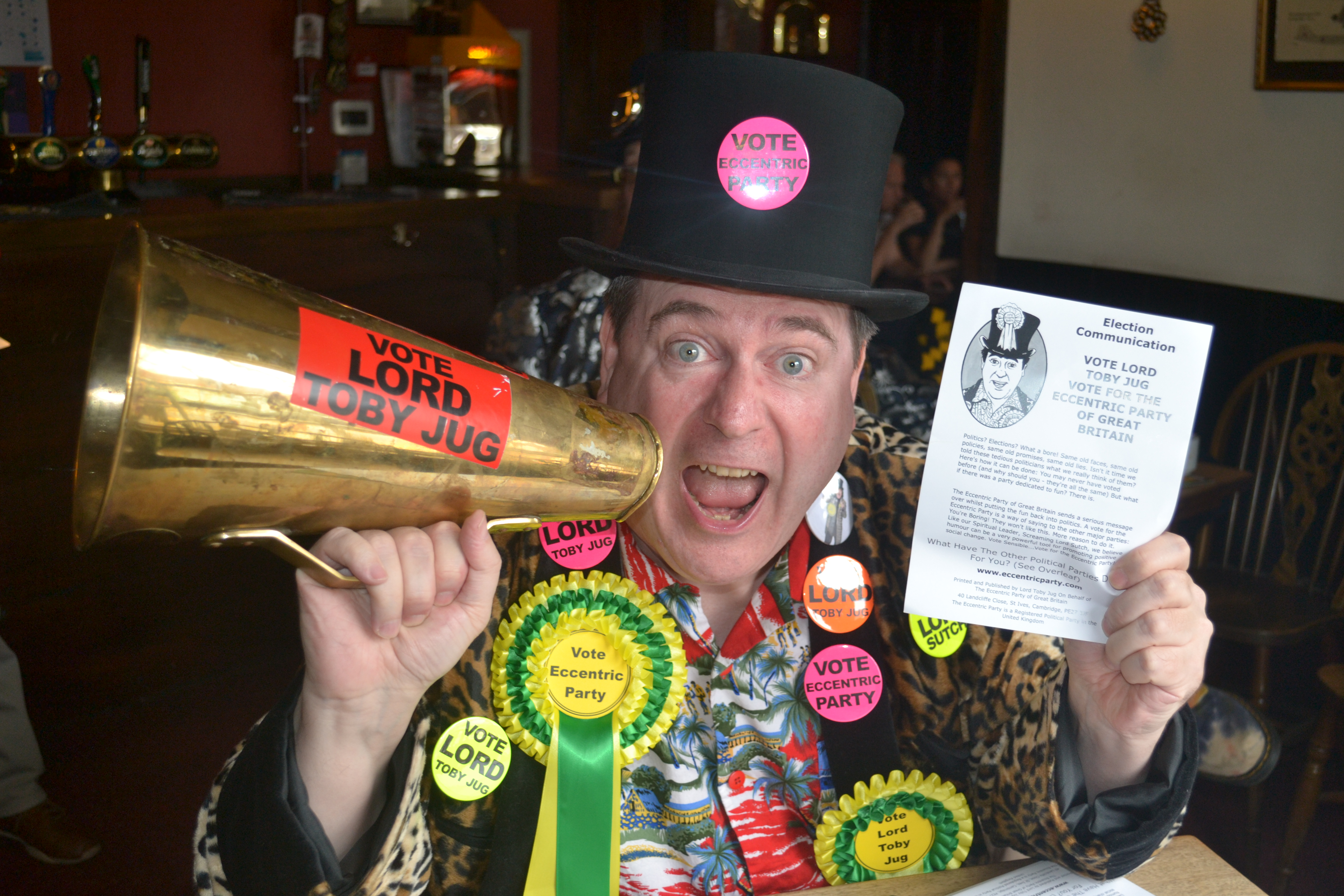 Lord Toby Jug at the official opening of the Ramsey Branch of the Eccentric Party - August 2016